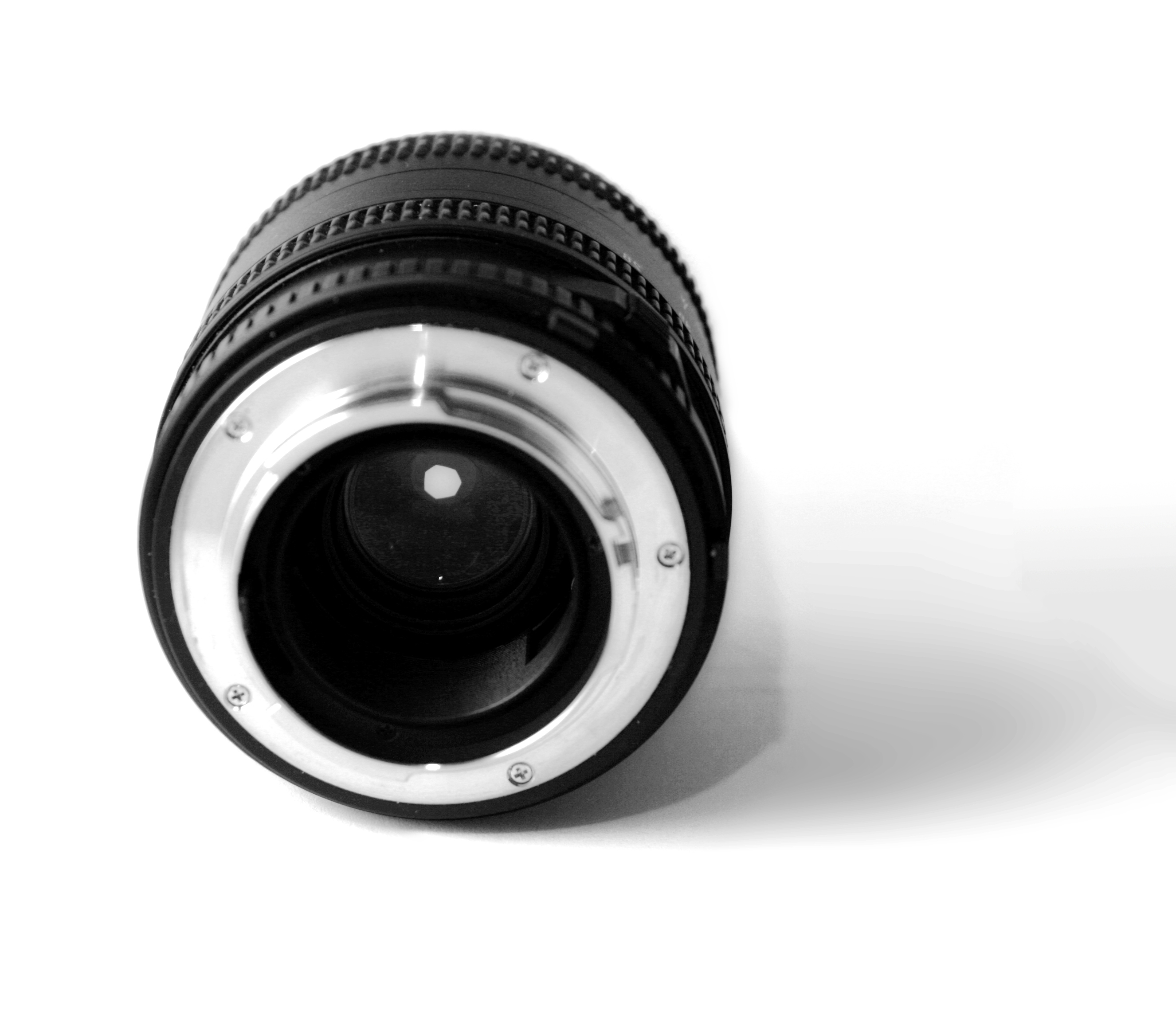 An SLR camera lens, detached, showing the exit pupil.